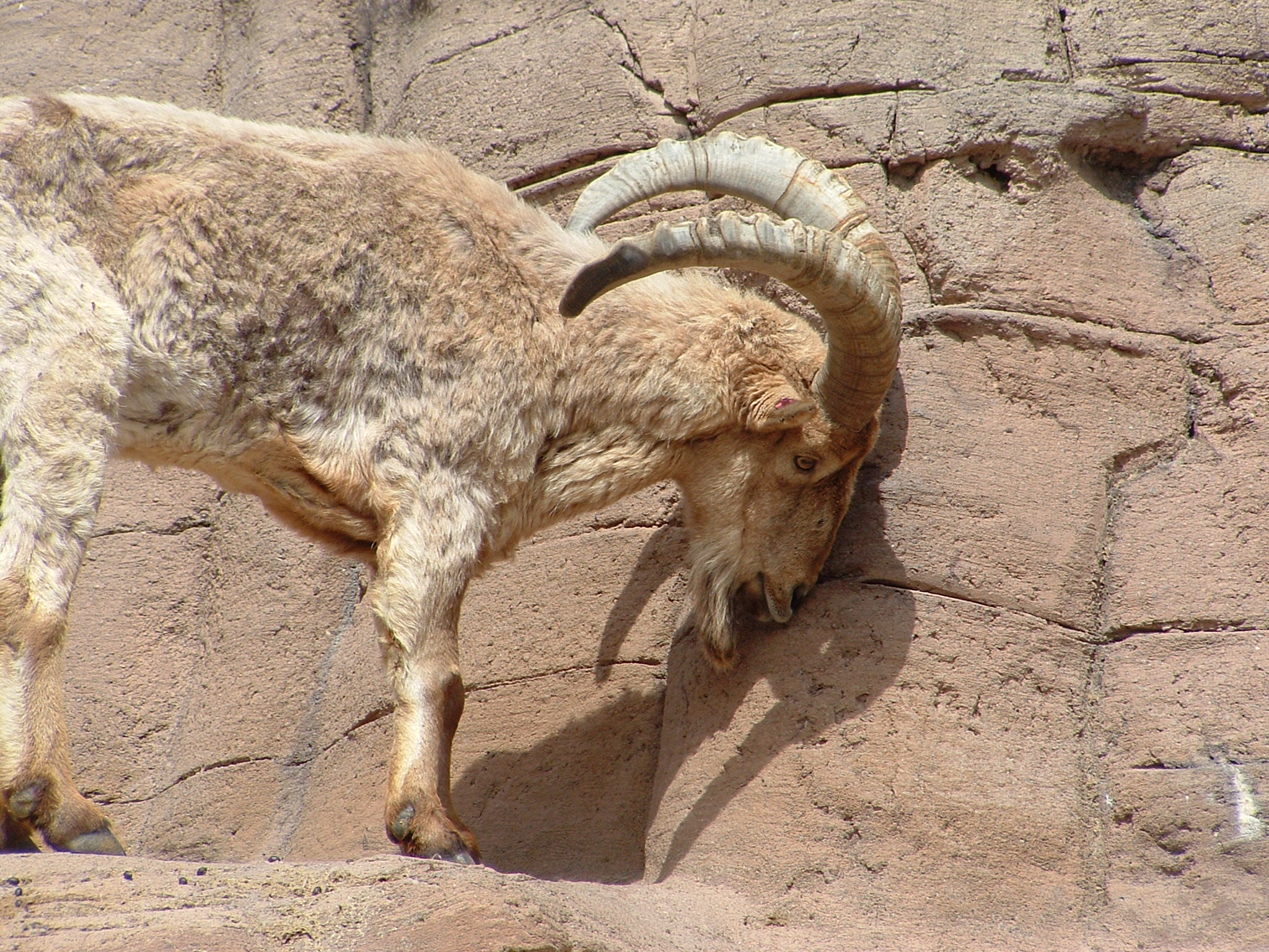 Photo of a West Caucasian Tur (Capra caucasica), taken at the Toronto Zoo, by the submitter